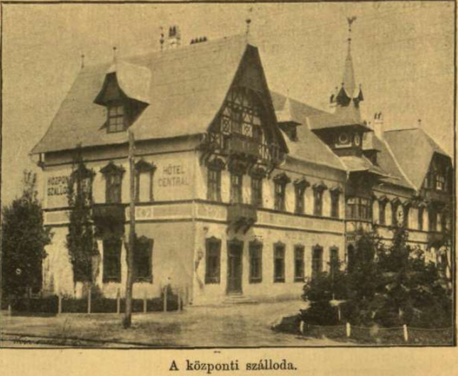 Hotel in Mezőhegyes